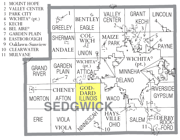 Map of Sedgwick County, Kansas highlighting Illinois Township